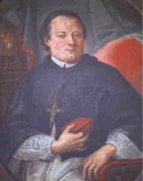 Portrait of Abbot Anselm Erb, abbot of Ottobeuren Abbey from 1740 to 1767.